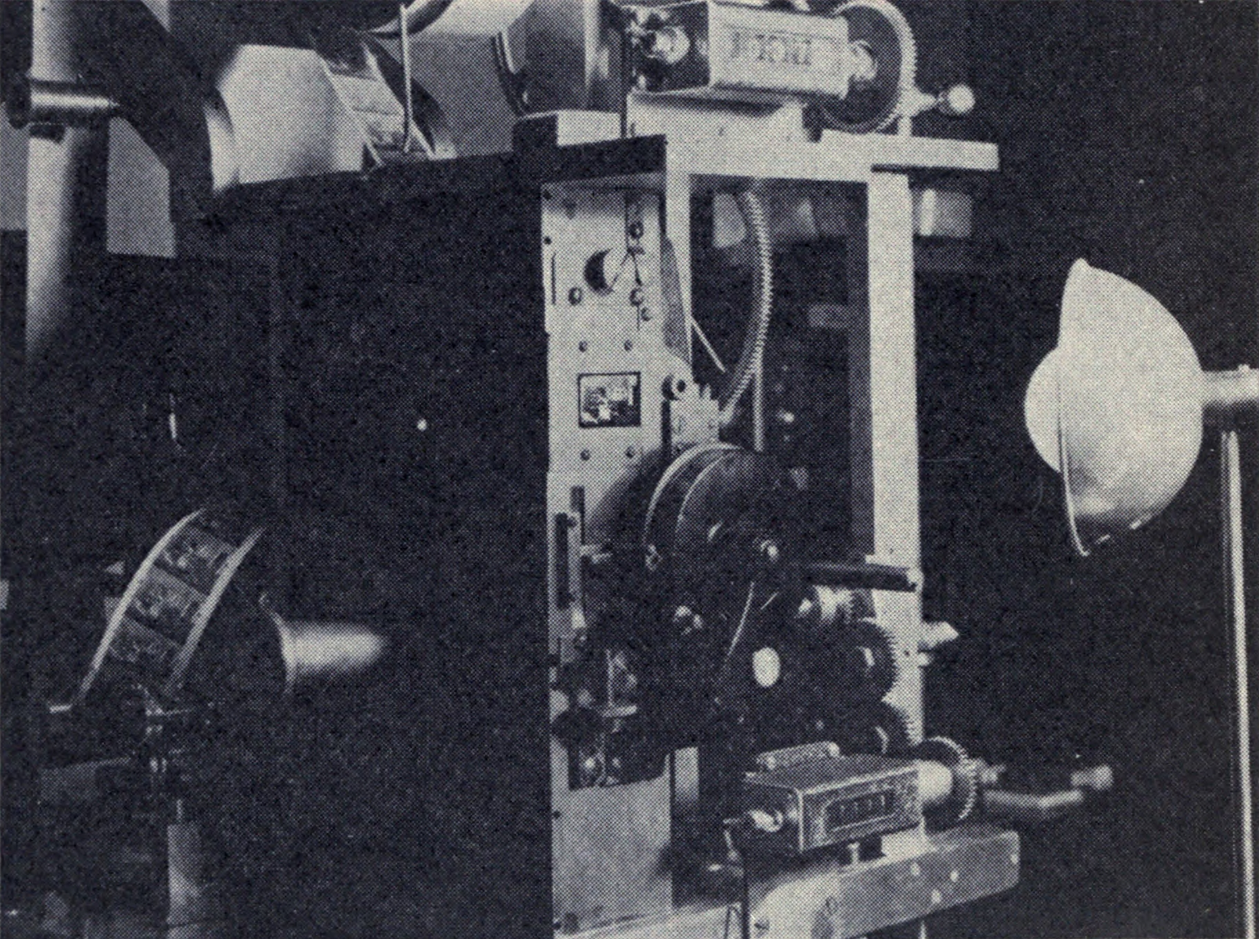 Optical printer by Carl Louis Gregory, close view with reflector, paper print frame in aperture of projector head, several covers removed for display, March 1943